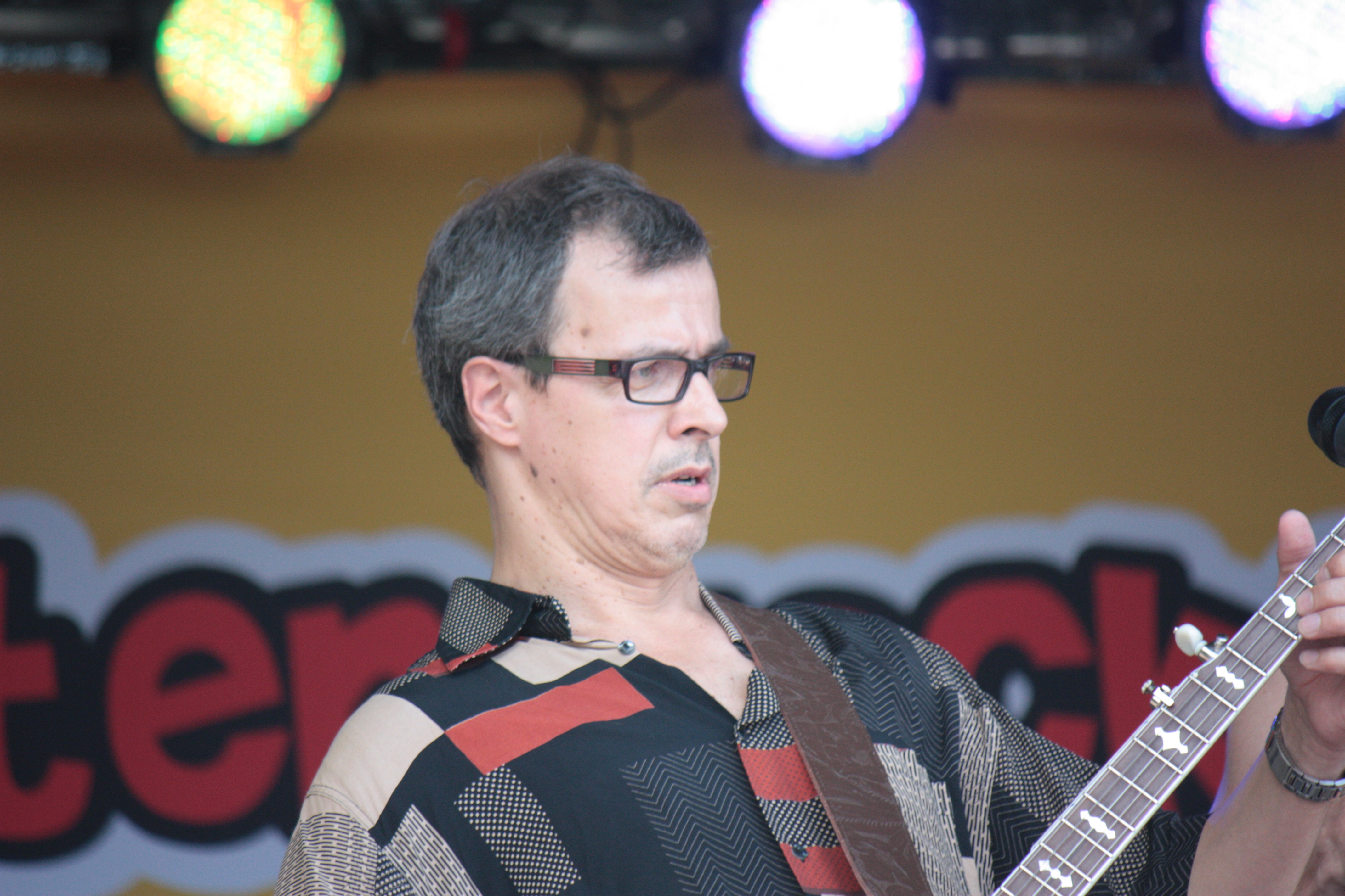 Guitarist Janne Louhivuori playing in the children's band Herra Heinämäen Lato-orkesteri. Performing in Seikkisrock festival in Seikkailupuisto park, Turku, Finland